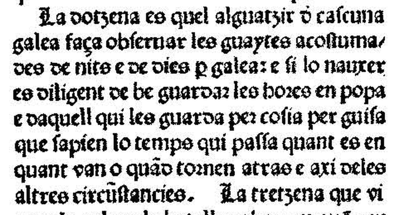 First written reference of the use of a marine sandglas for dead reckogning navigation: " La dotzena és quel alguatzir de cascuna galea faça observar les guaytes acostumades de nits e de dies. E si lo nauxer és diligent deu bé guardar les hores en popa e daquell qui les guarda per cosia. Per guisa que sapìen lo temps qui passa quan és en quan van o quan tornen atràs e així de les altres circumstàncies."